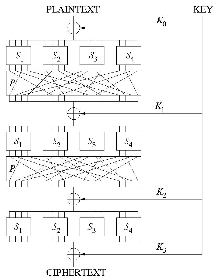 A slightly better sketch of Shannon's scheme for a substitution-permutation network to define a cryptosystem that has confusion and diffusion.